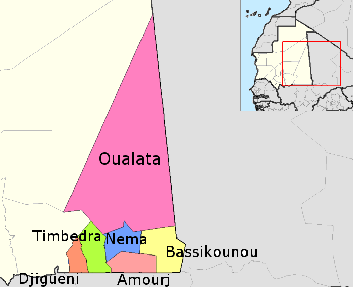 A simple adaptation of User:Rarelibra's original map Image:Hodh_Ech_Chargui_departments.png, consisting solely of using GIMP to make larger department names. User:McTrixie